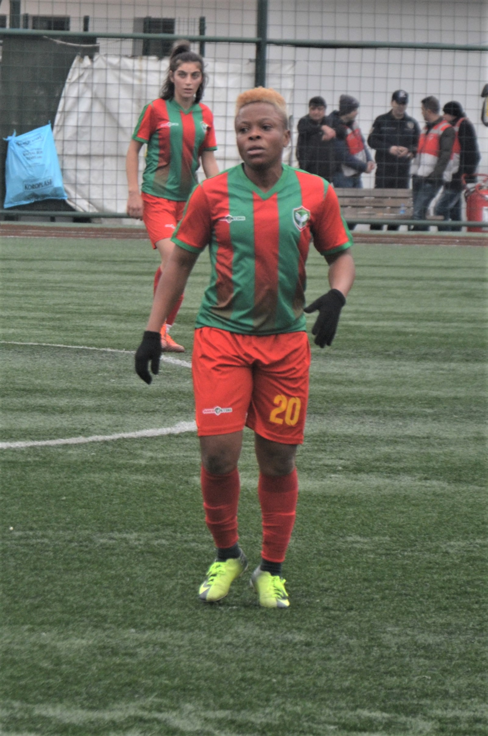 Chidinma Favour Edeji of Amed S.K. in the 2018-19 Turkish Women's First League.